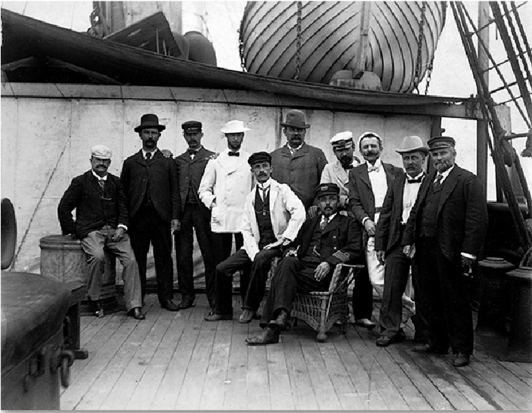 American photographer Harry Grant Olds (seated, in white jacket and hat) on the "Buffon" ship, which brought him to South America.